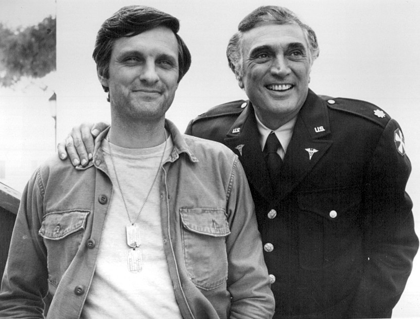 Photo of Alan Alda with his father, Robert Alda, from the television program M*A*S*H. The senior Alda had a guest-starring role as a noted surgeon visiting the 4077th. This was the first time the two Aldas worked together on film.